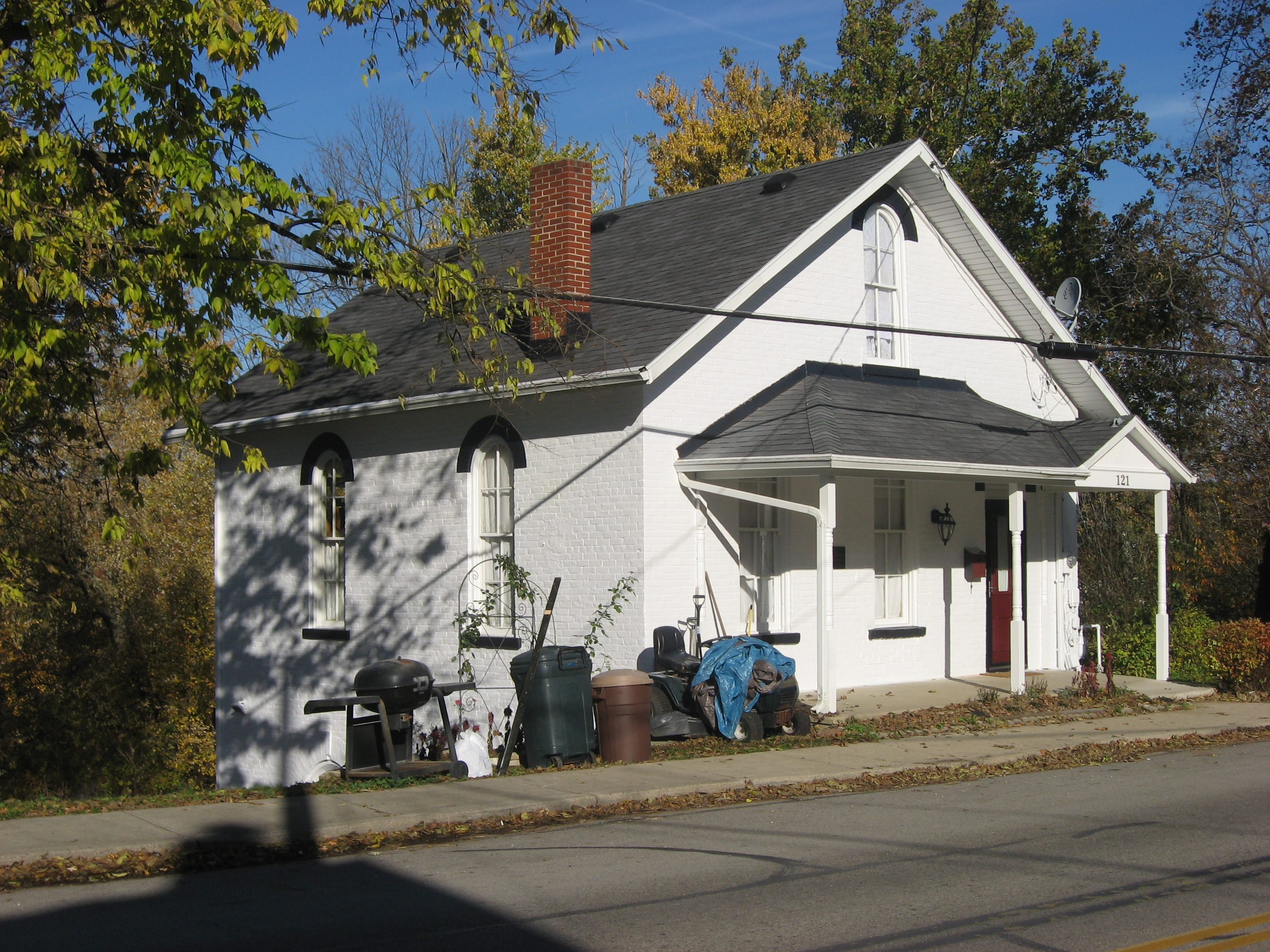 Front of the former Sidney Waterworks and Electric Light Building, located at 121 N. Brooklyn Avenue on the east side of Sidney, Ohio, United States. Built in 1873, it is listed on the National Register of Historic Places.